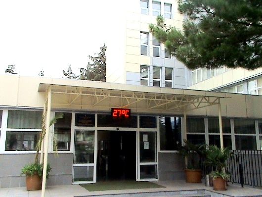 Entrance in School of the Future (Yalta)